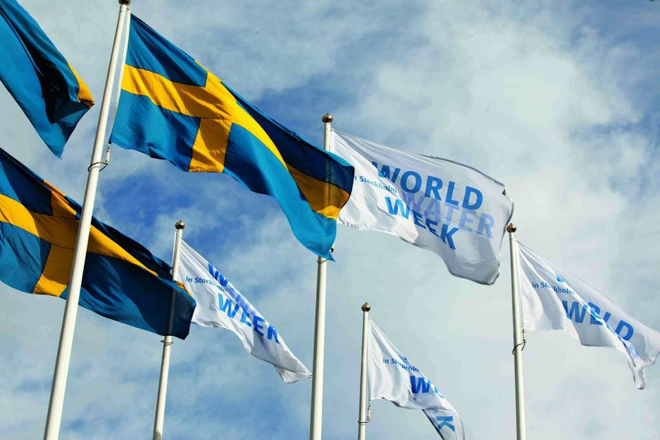 World Water Week in Stockholm